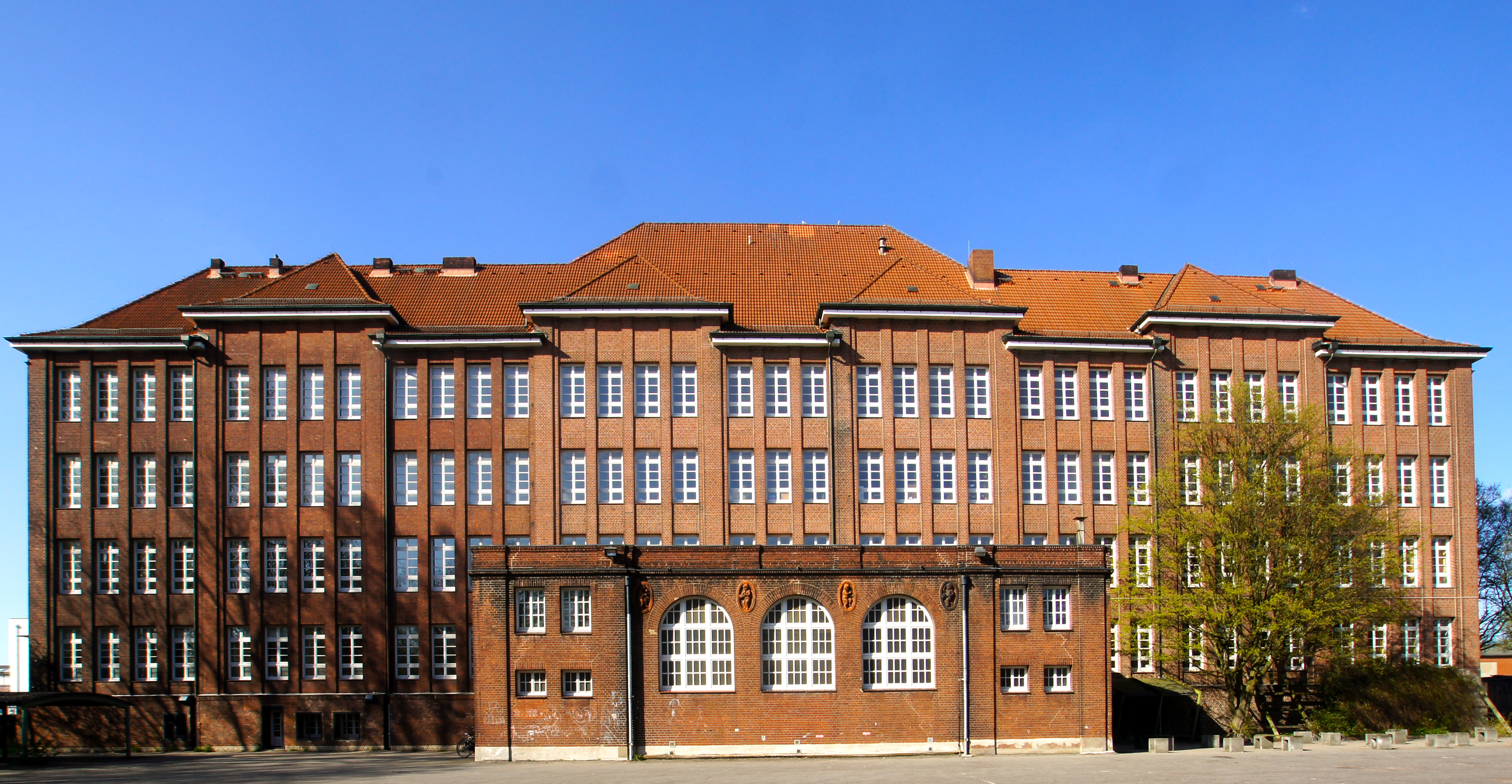 Hamburg (Rothenburgsort), Germany: Bullenhuser Damm School, where the nazis murdered 20 jewish children and at least 28 adults (Russians, French and Dutch)